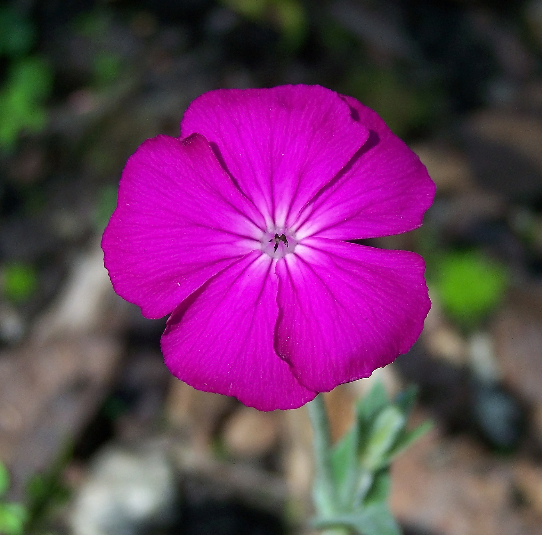 Silene coronaria (L.) Clairv.